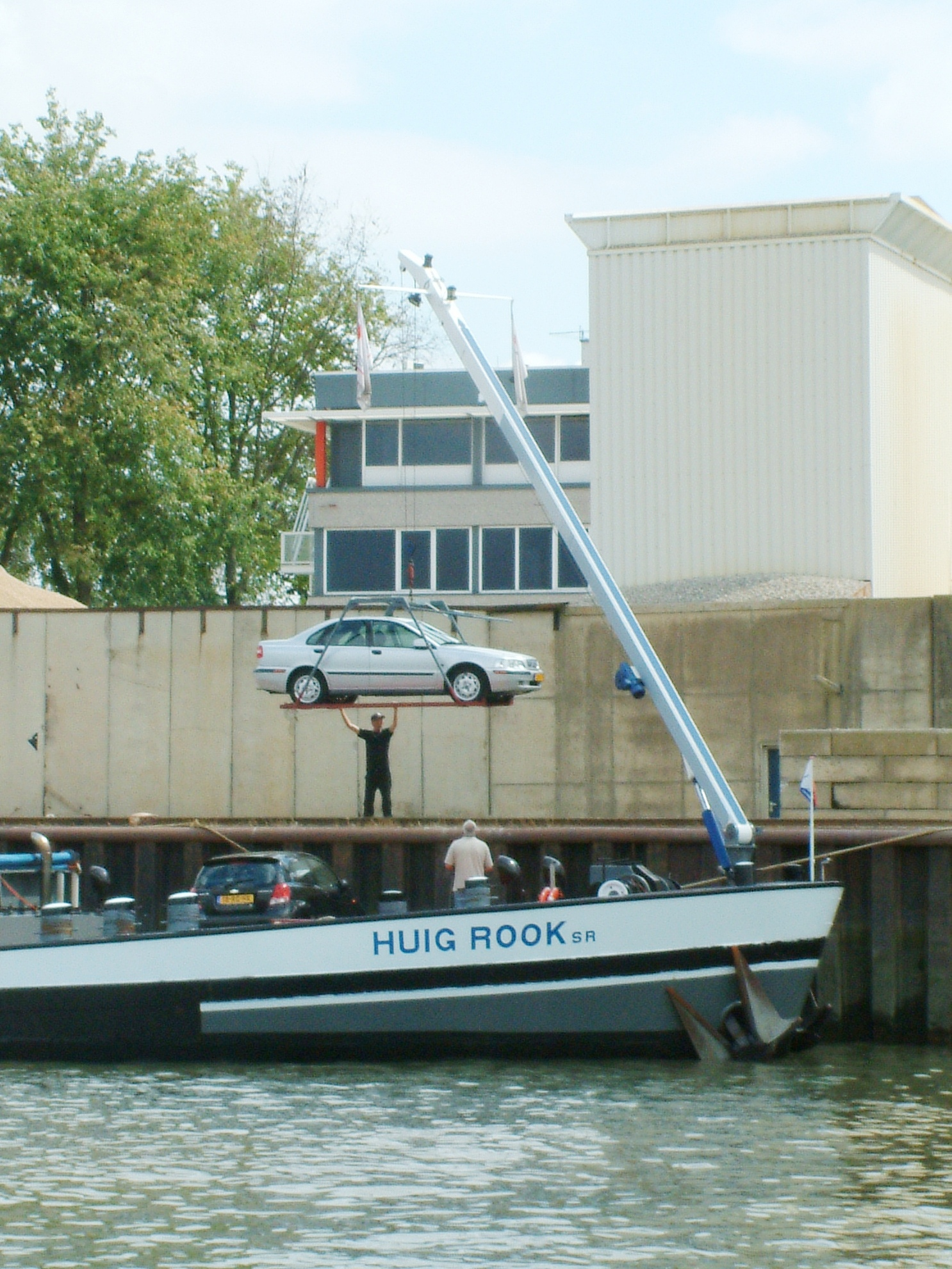 Barge crane for embarking of cars